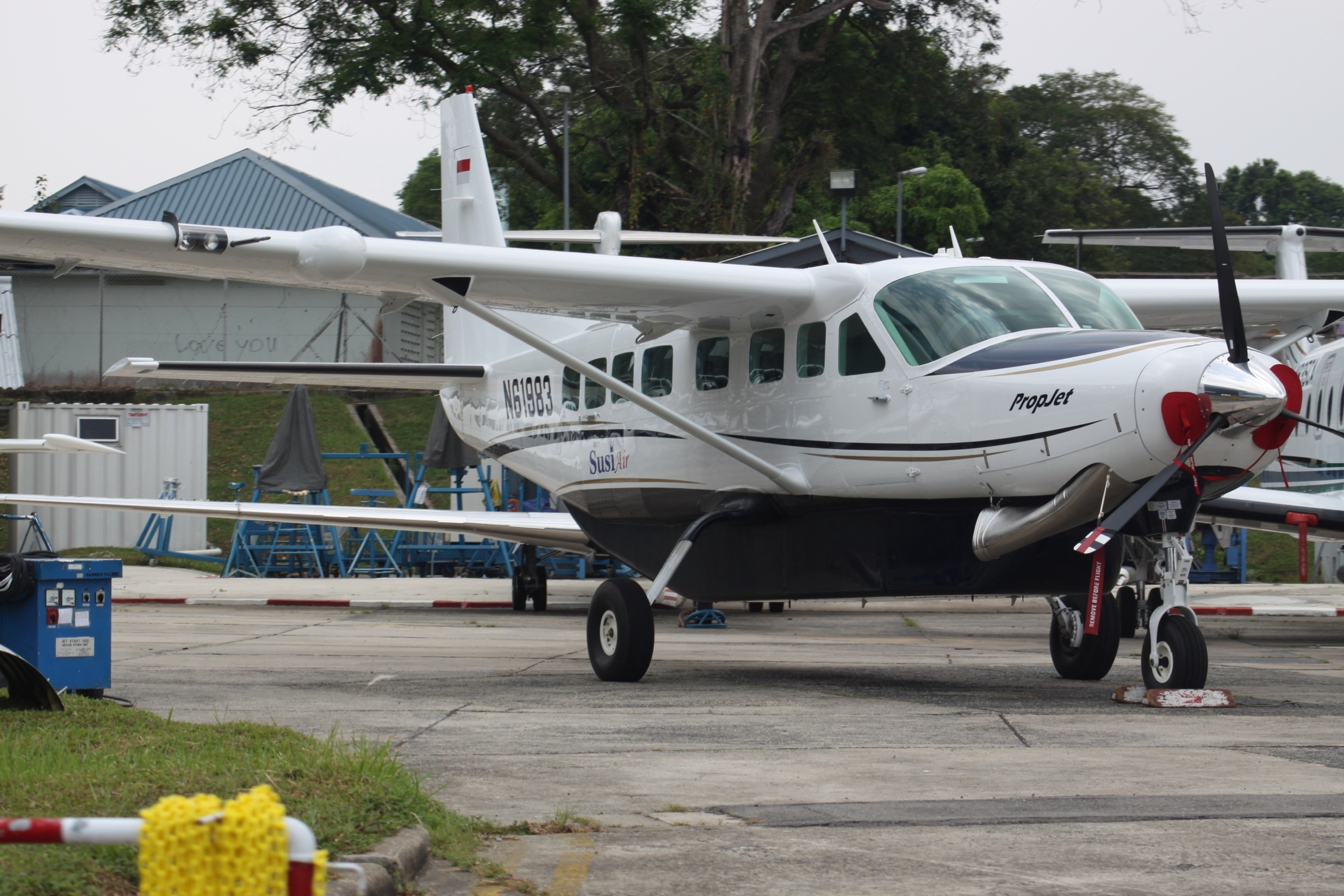 At Singapore Seletar